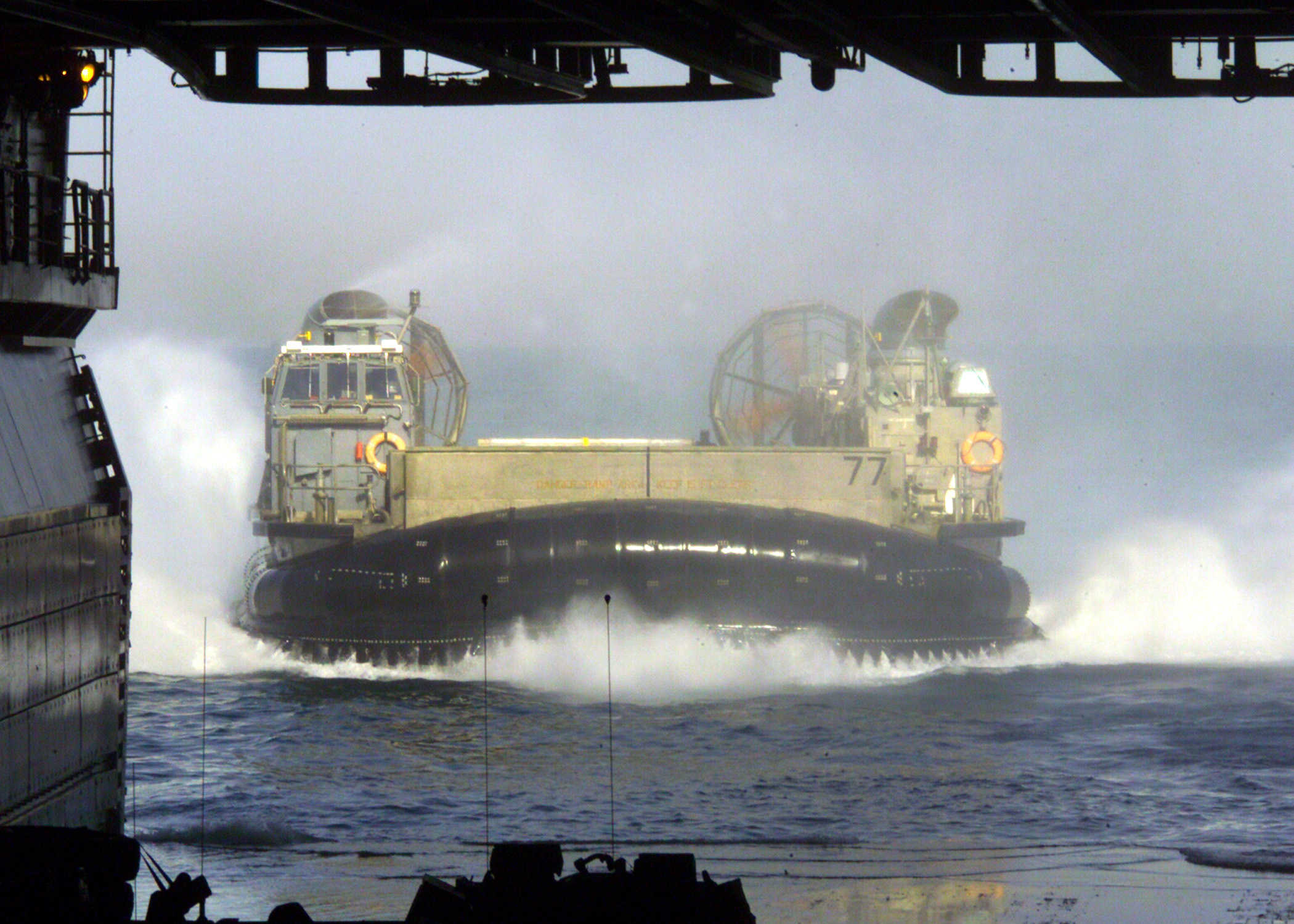 At sea aboard the amphibious assault ship USS Kearsarge (LHD 3) (Feb. 15, 2002) – A Landing Craft, Air Cushioned (LCAC) assigned Assault Unit Craft 4 (ACU-4) approaches the well-deck while transporting elements of the 2d Marine Expeditionary Brigade (2- MEB) to a Kuwaiti port facility. 2-MEB has been deployed in the region to support the continued global war on terrorism, and other operations in support of national interests as directed. U.S. Navy photo by Photographer’s Mate 3rd Class Angel Roman-Otero. (RELEASED)